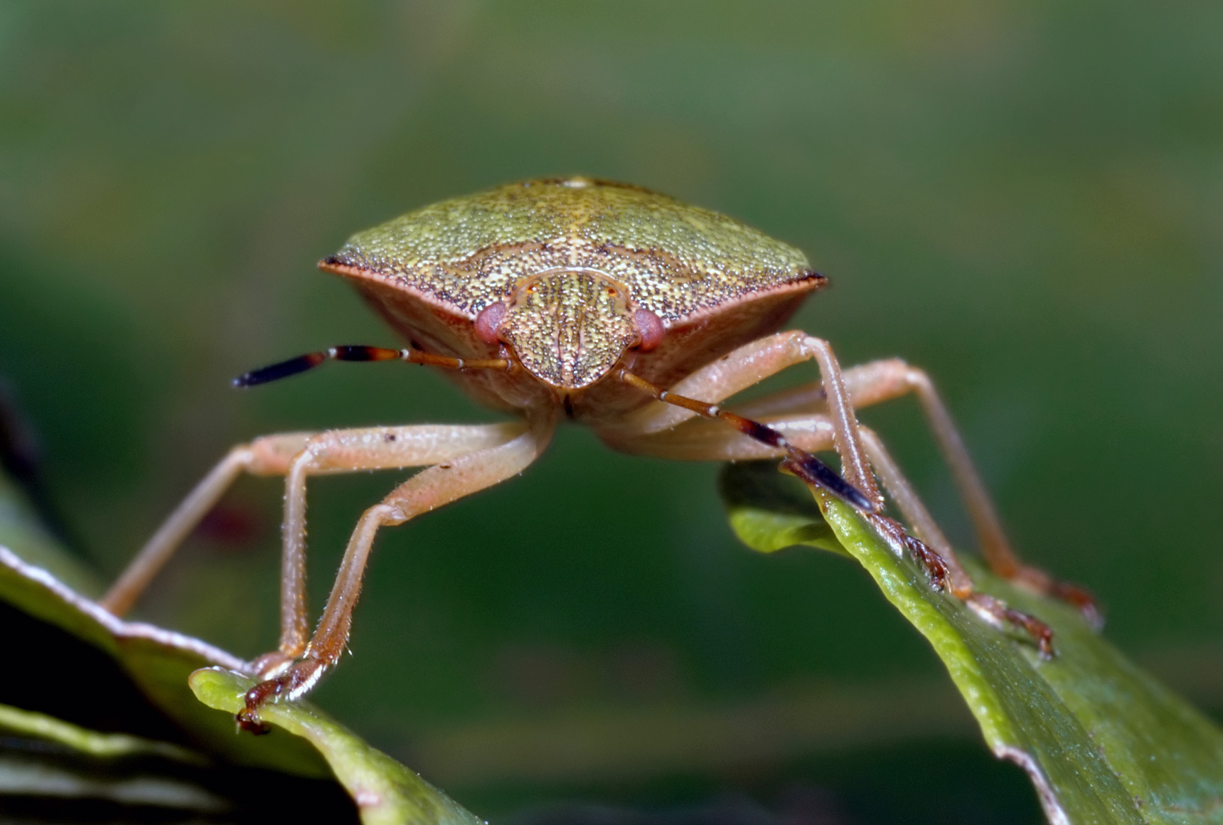 This image shows a Green shieldbug (Palomena prasina). Thanks to Olei, Mbc and Doc Taxon for identifying this animal.